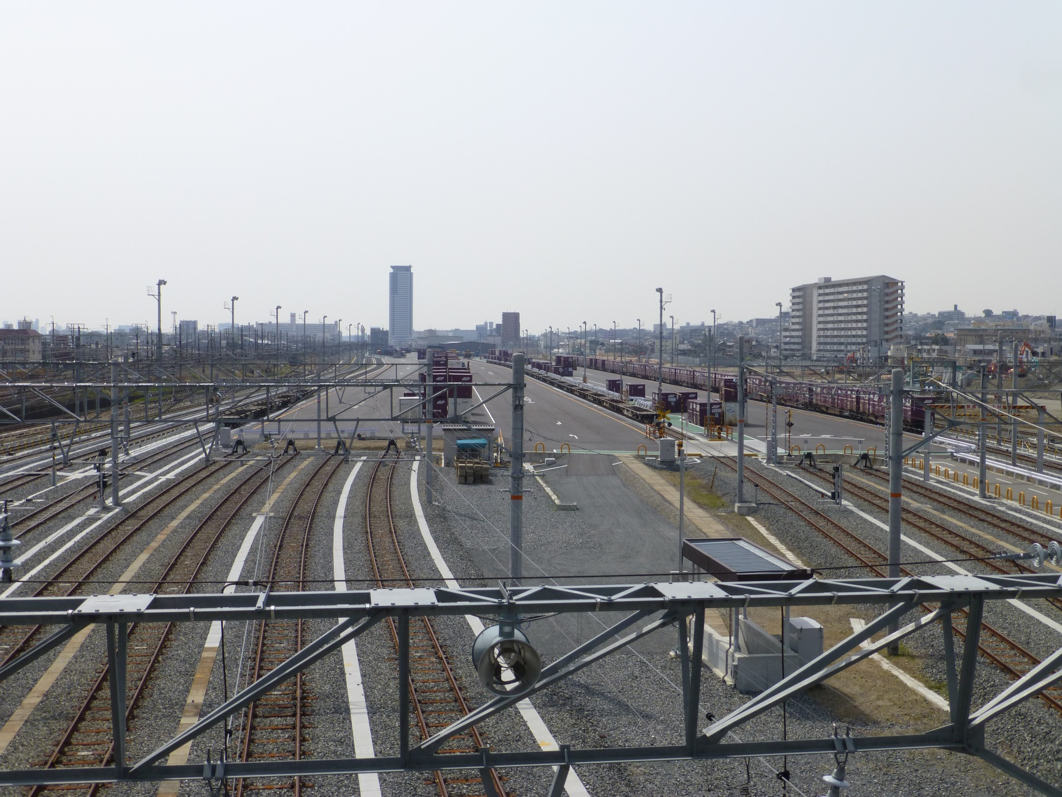 Suita freight terminal, seen from overbridge of Kishibe station.